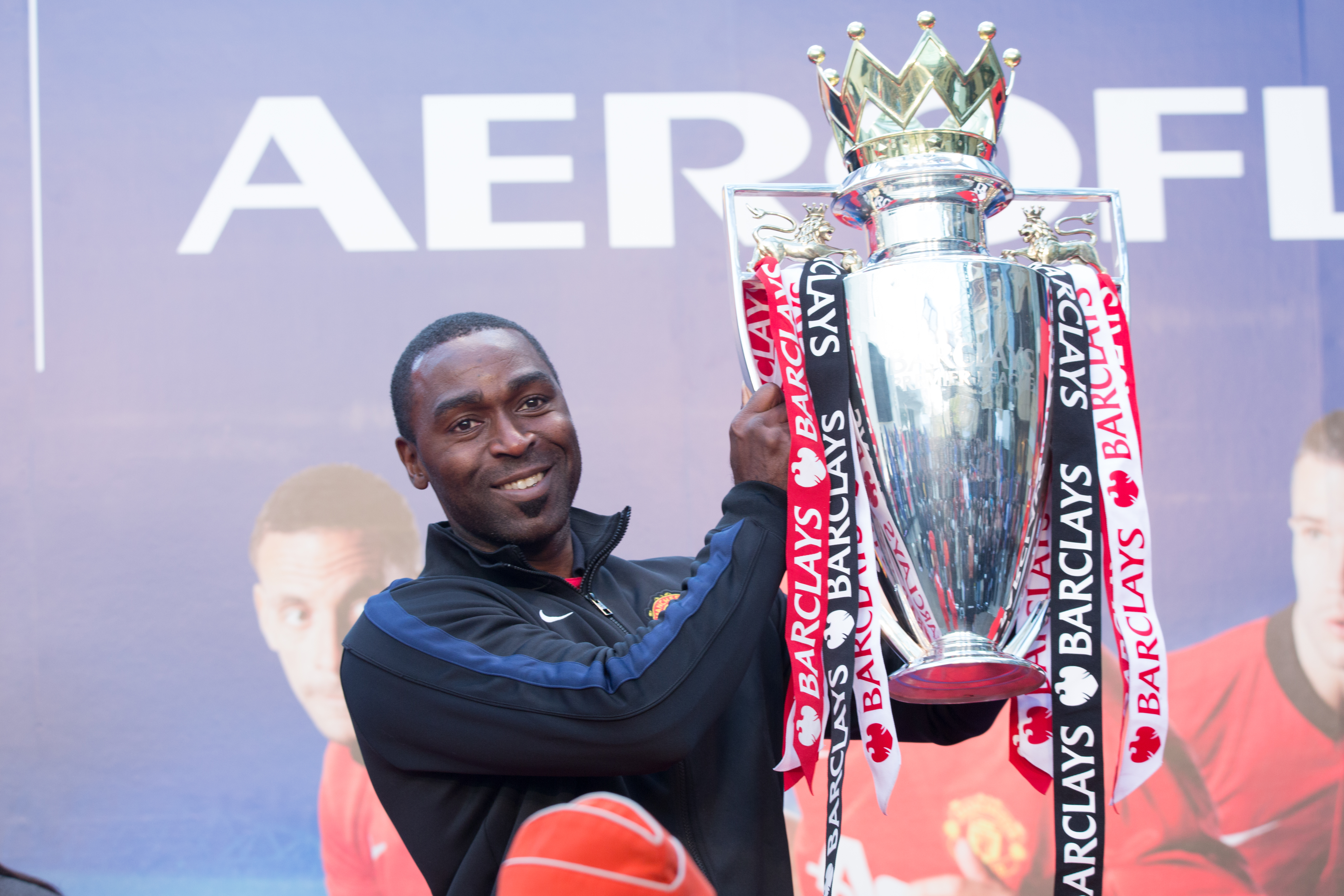 AEROFLOT ManchesterUnited TrophyTour